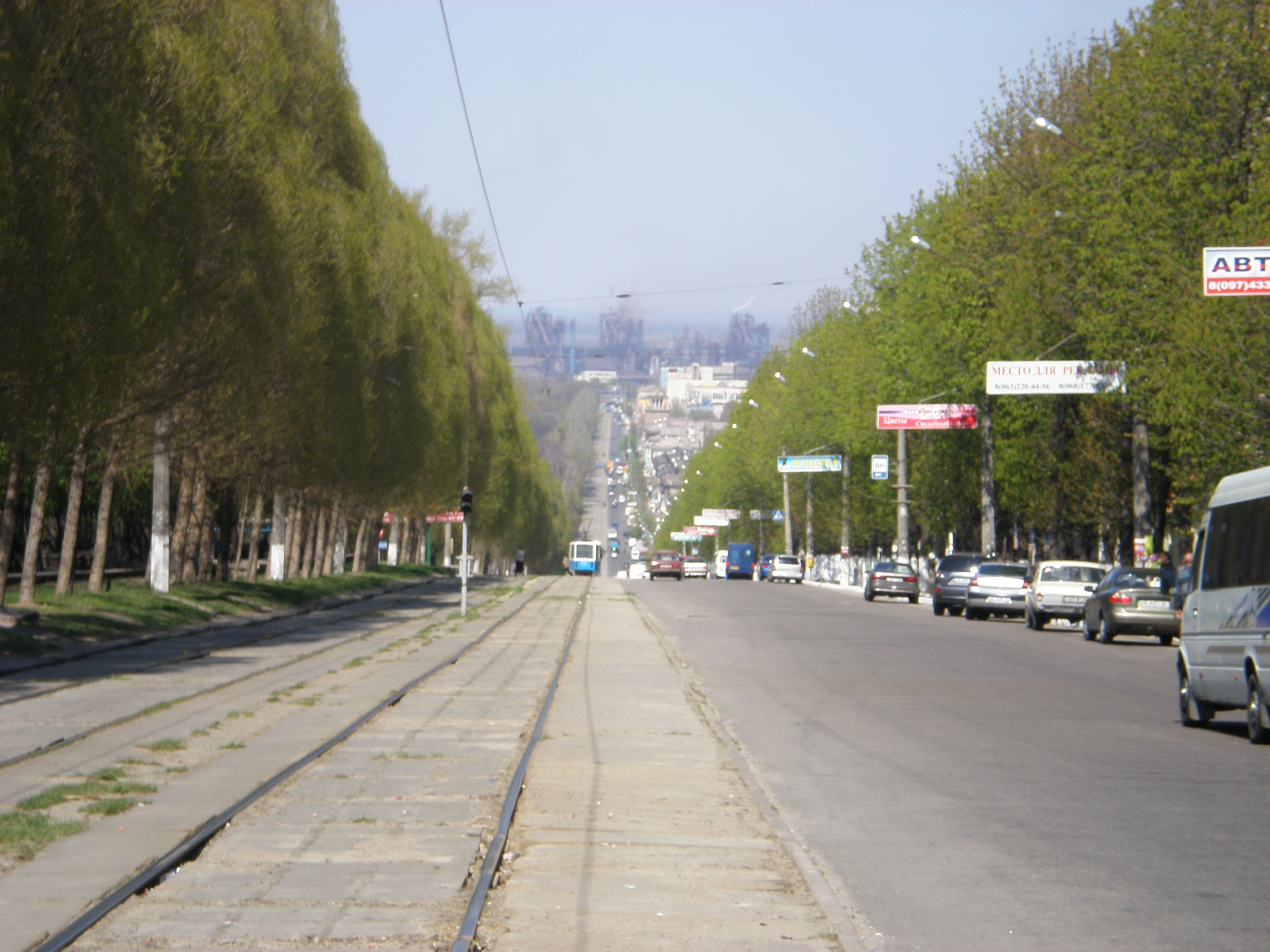 Prospekt of Lenin in Dneprodzerzhinsk